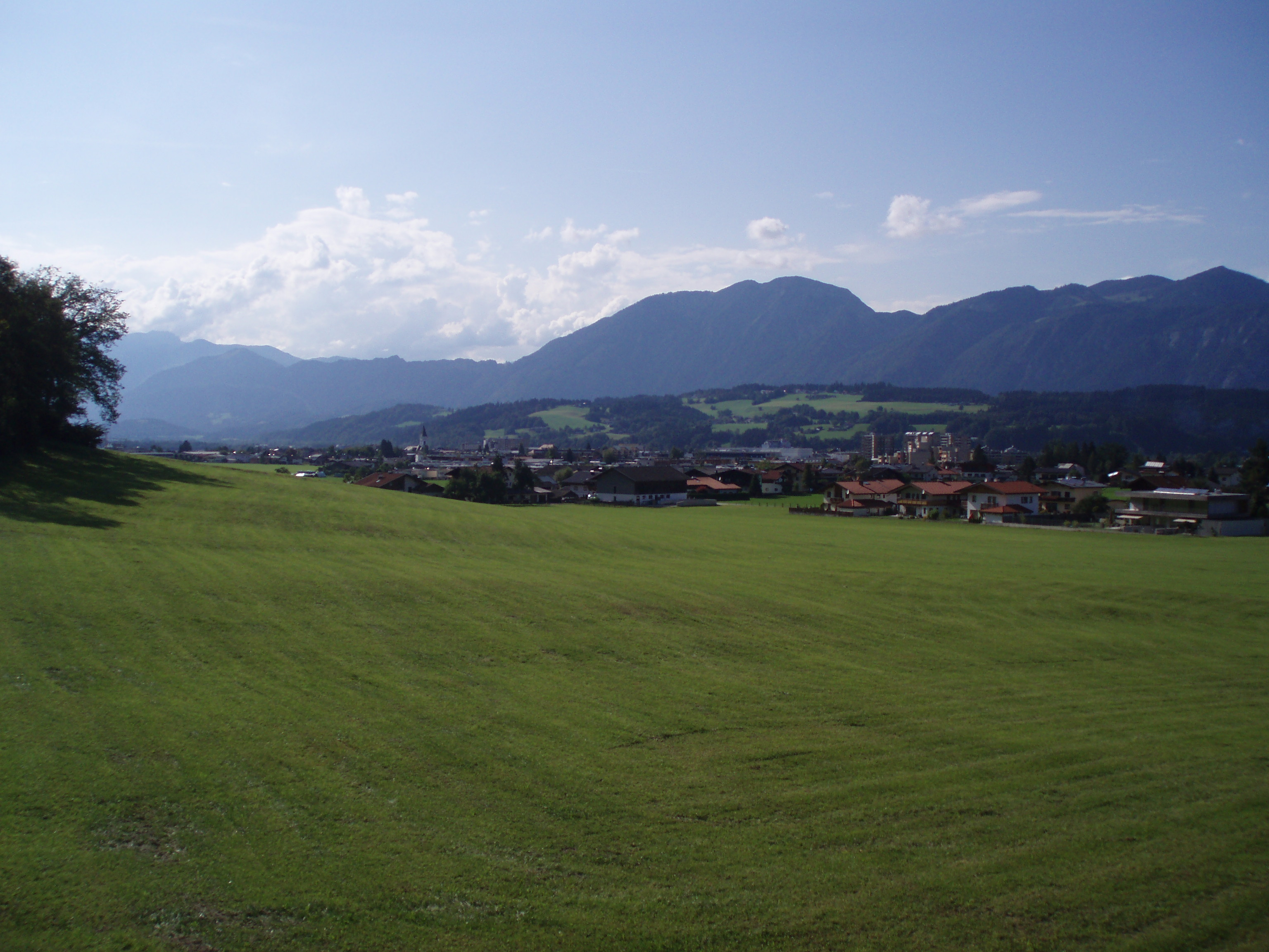 The Tyrolean town Wörgl in the Inntal valley, Austria